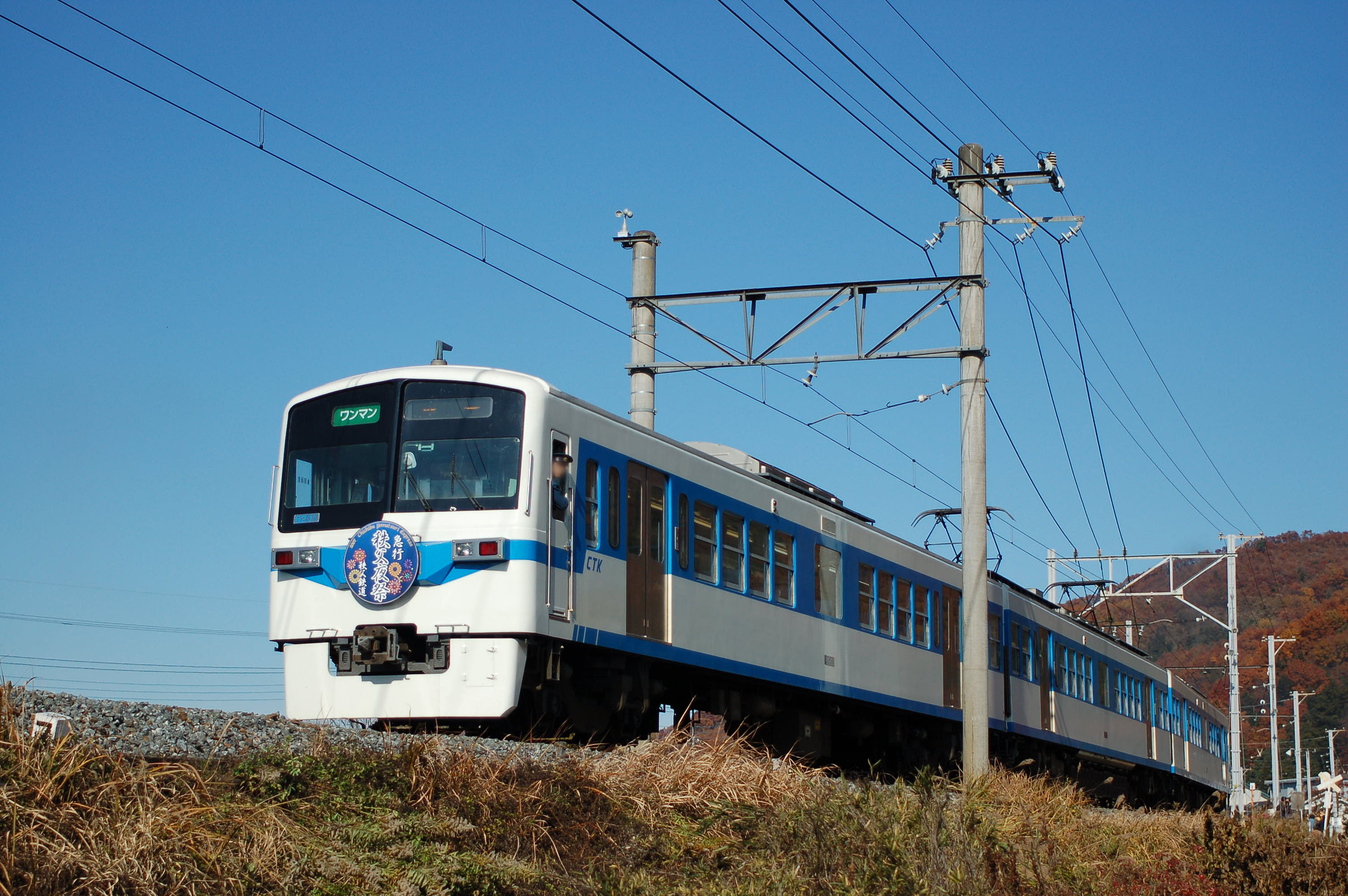 Chichibu railway type 6000 electric car, "Chichibu-Yomatsuri gou". 秩父鉄道6000形電車による臨時急行｢秩父夜祭号｣。黒谷-武州原谷(貨)間にて、後追いで撮影。